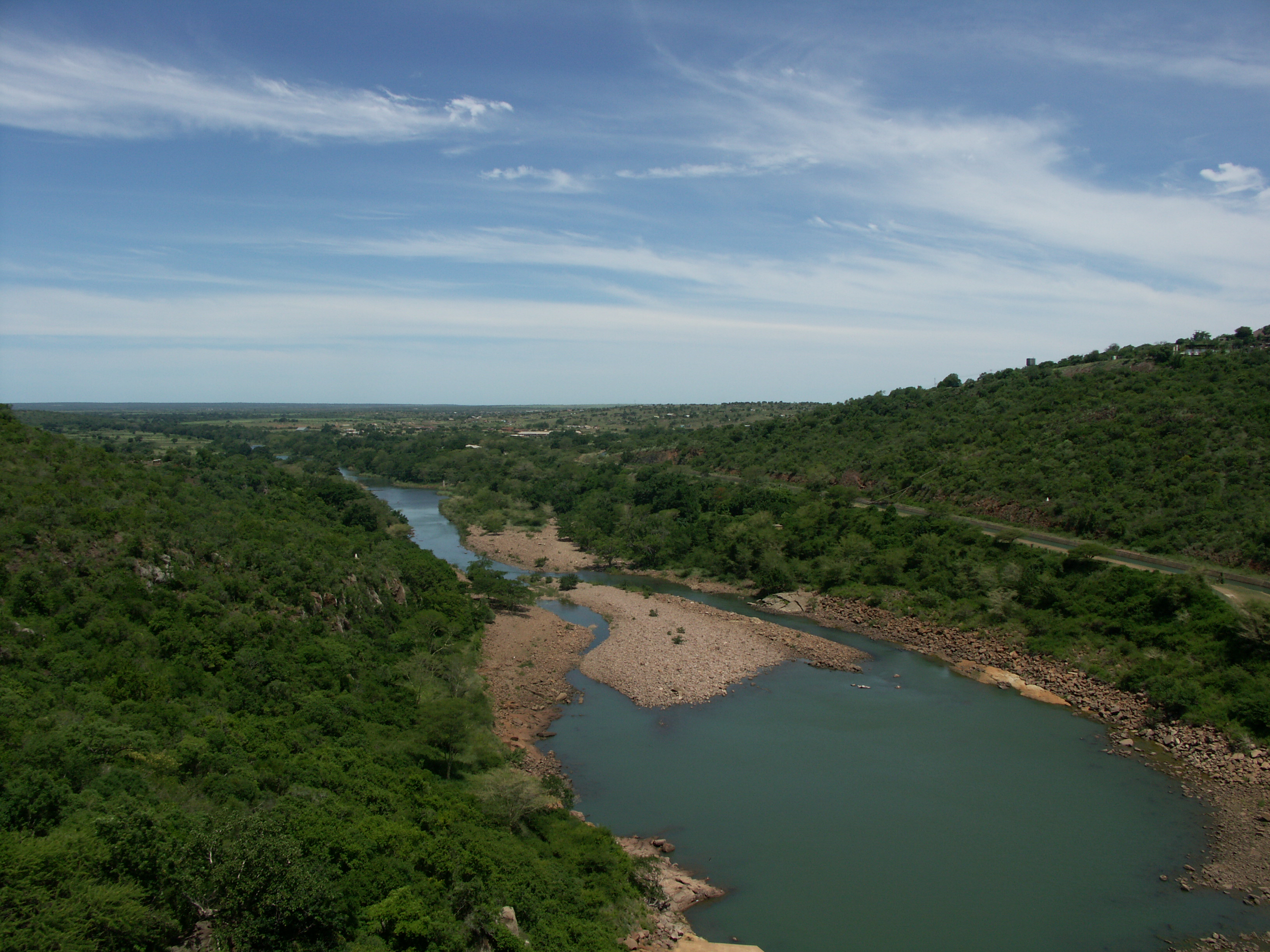 Pongola river in Eswatini, immediately below Jozini dam.